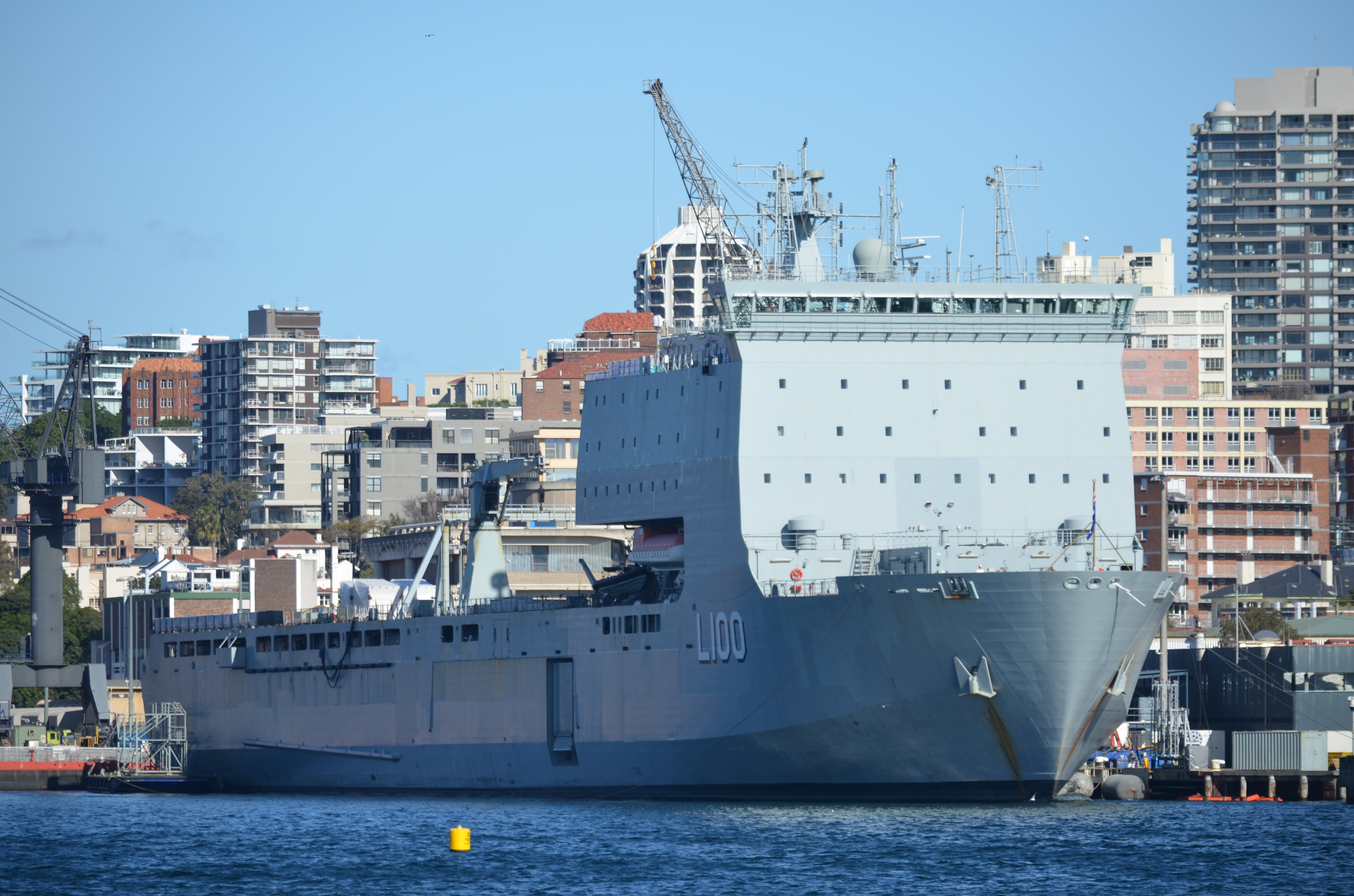 HMAS Choules berthed at Fleet Base East in 2014